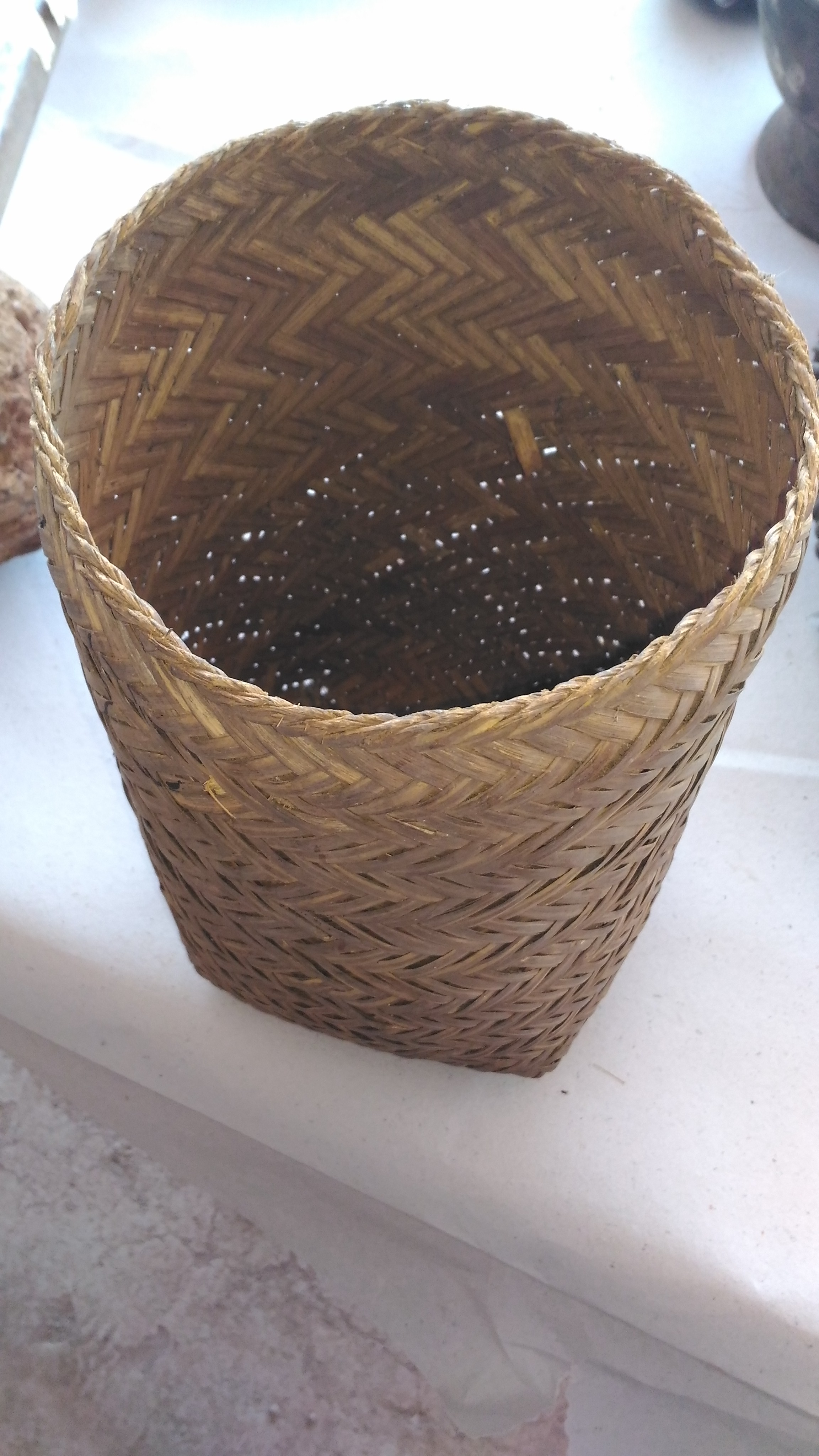 A bamboo container used to wash rice.